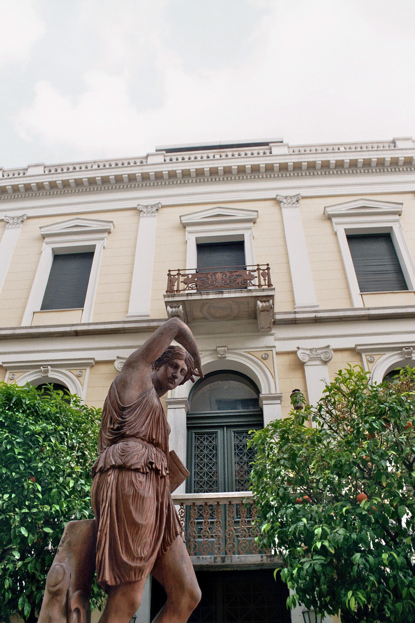 Numismatic Museum of Athens, Greece, fomer house of Heinrich Schliemann, Iliou Melathron